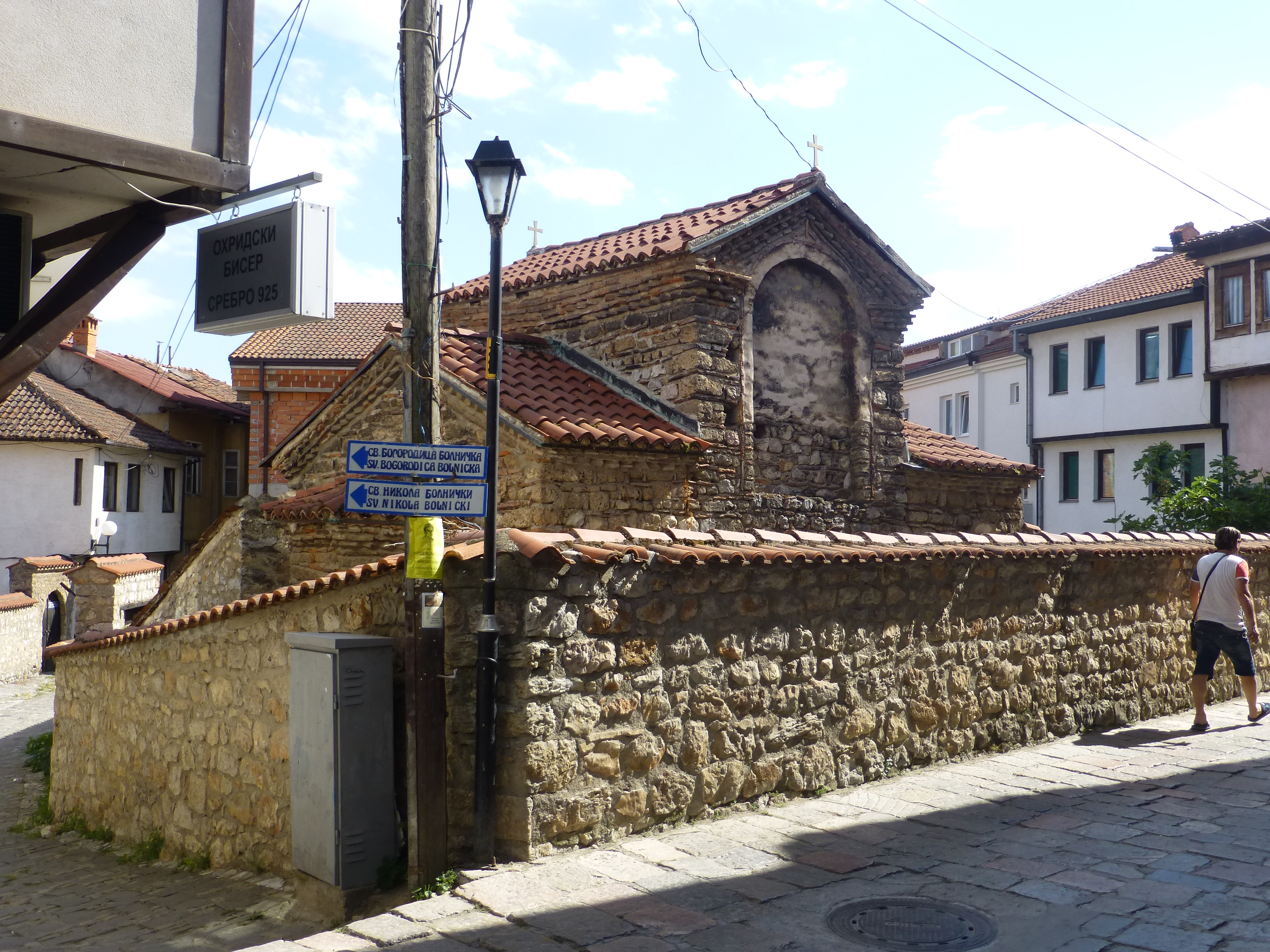 Holy Virgin Mary Bolnička Church and St Nicholas Bolnički Church, Ohrid